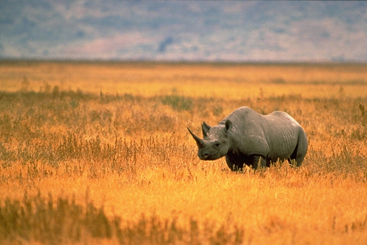 A Black Rhinoceros (Diceros bicornis) in Tanzania